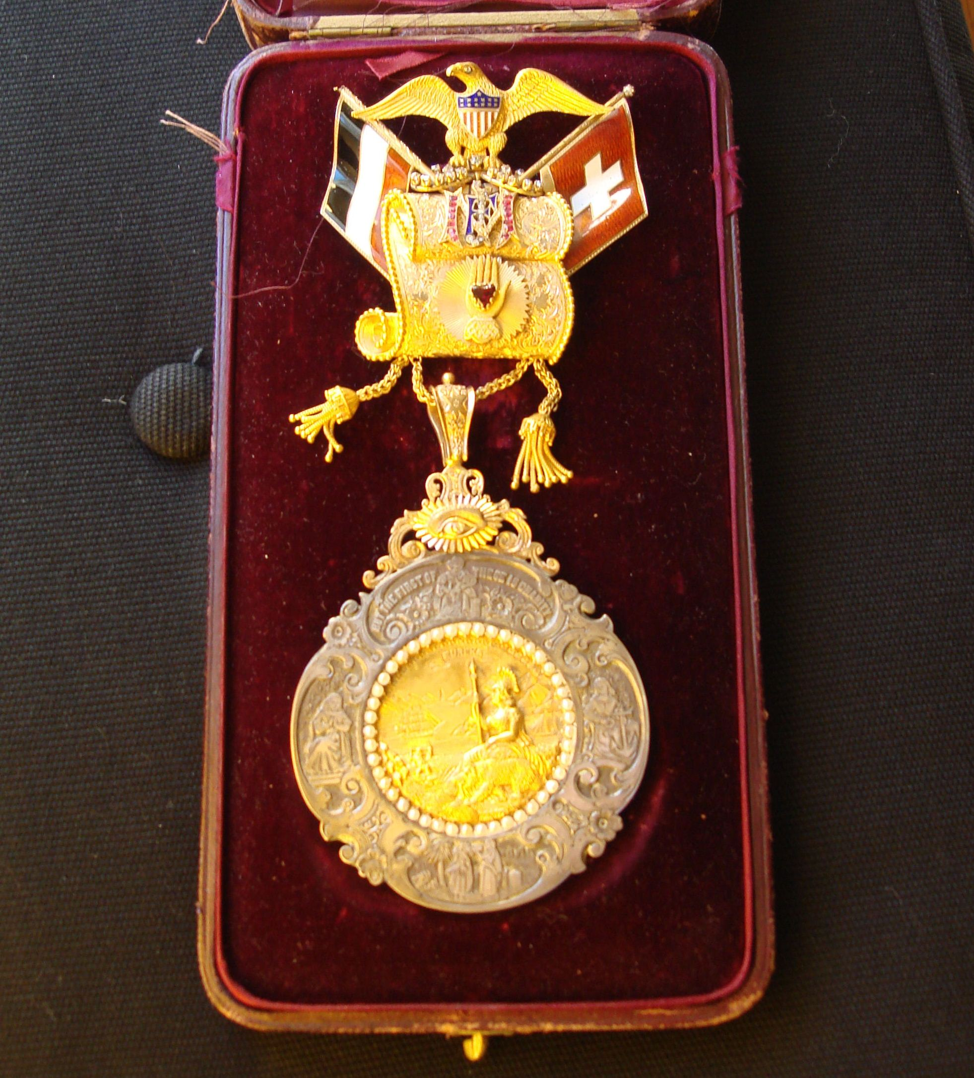 Dr. John F. Morse was instrumental in founding the Independent Order of Odd Fellows in Germany and Switzerland which help spread Thomas Wildey Odd Fellowship throughout the European continent.